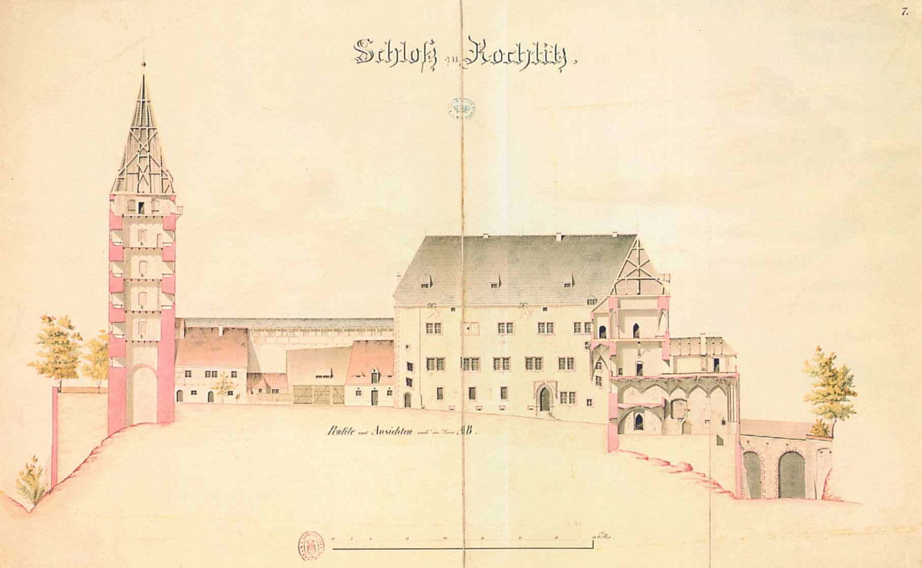 Elevation of Schloss Rochlitz